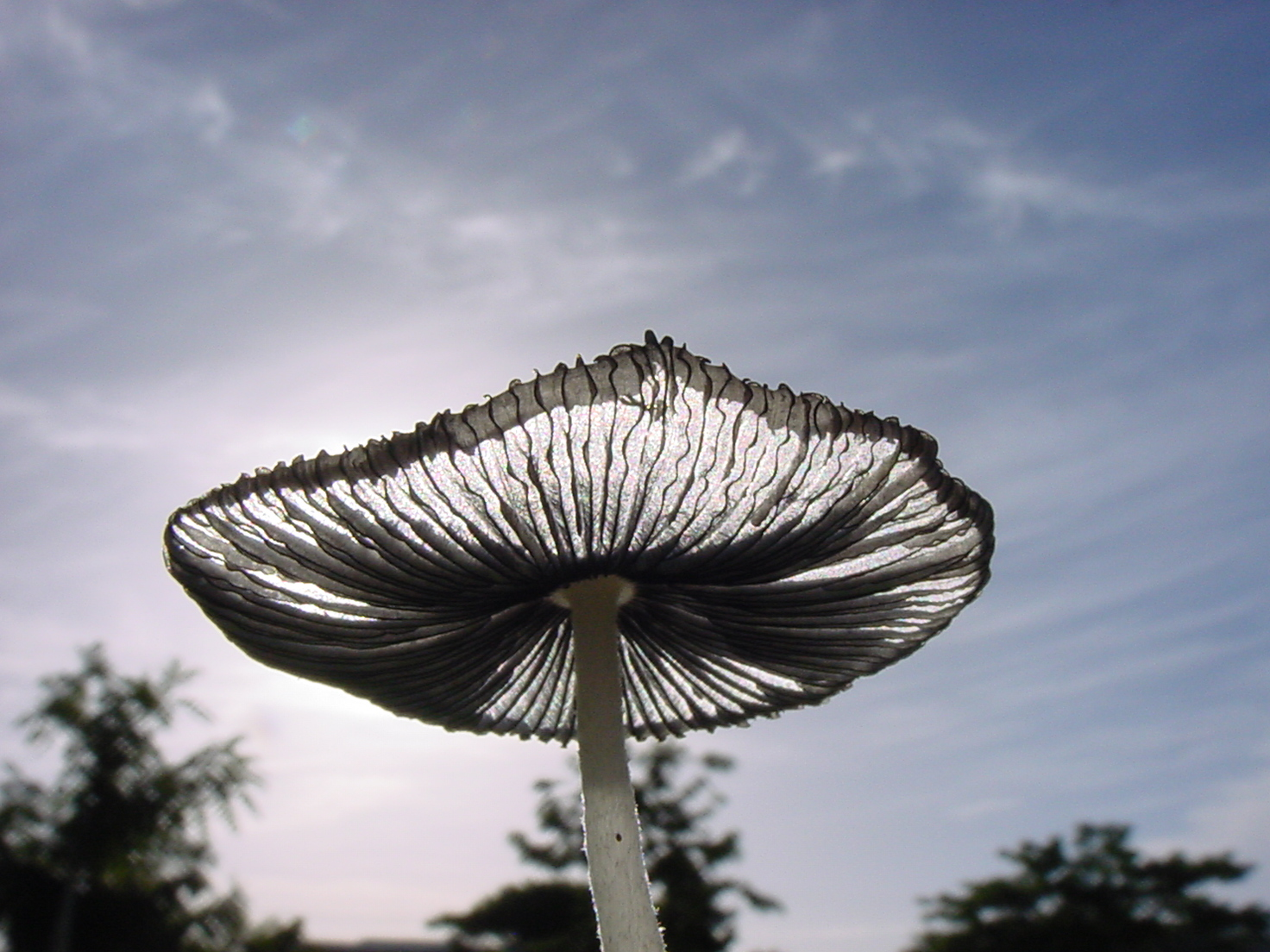 Mushroom gills revealed through backlighting. Mushroom (unknown species) pictured from below, backlit by morning sun.